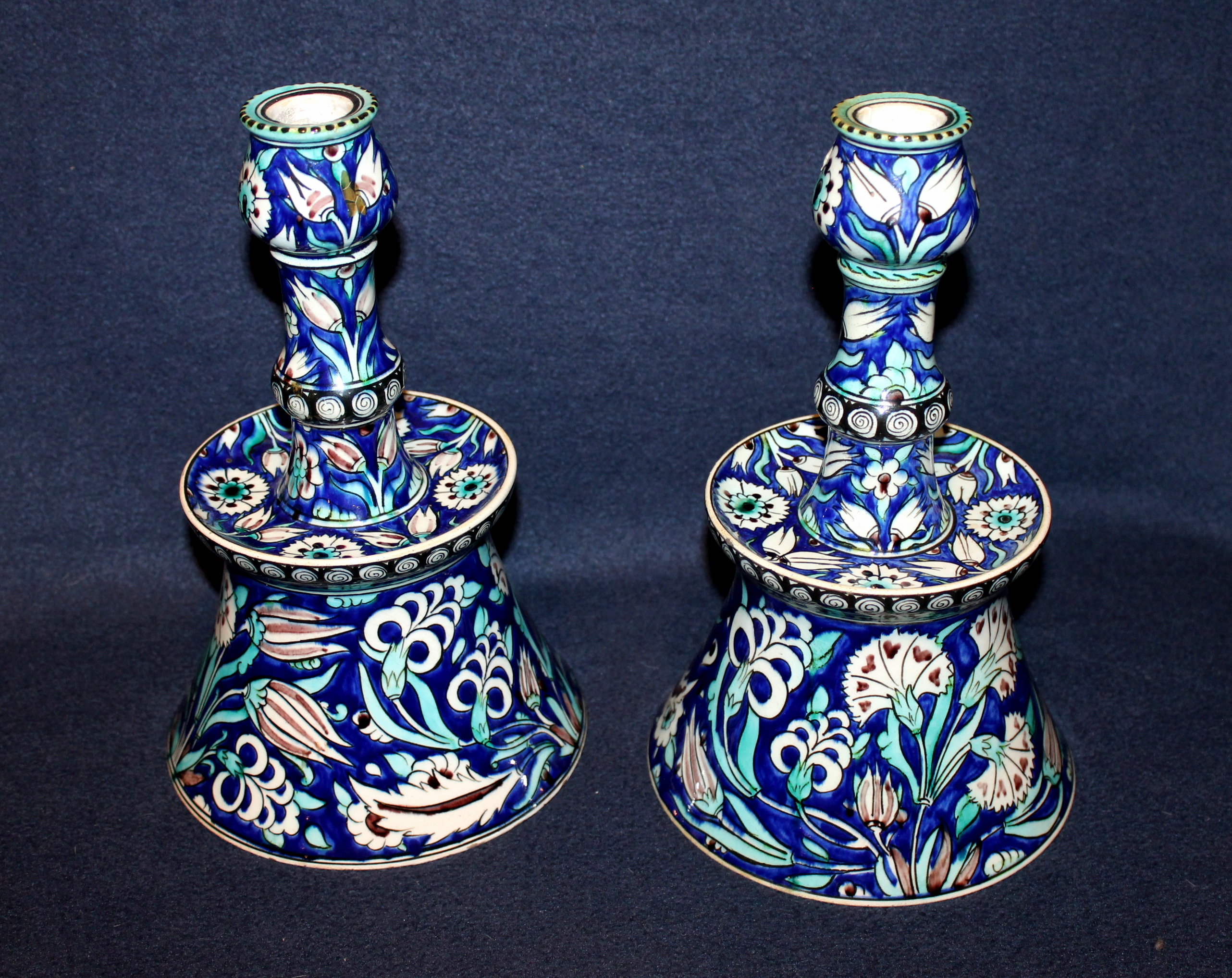 A pair of 19th century large candlesticks in "Iznik style" with tulip blossoms, painted in cobalt blue, red (bole), turquoise and black under the glaze, signed in black rooster maker's mark CANTAGALLI under the base. Ulisse (d. 1901) and Guiseppe Cantagalli had a workshop in Florence. They produced Iznik style pottery after 1878. They put a rooster trademark inside foot rim. See: Denny, Walter B. (2004), Iznik: the artistry of Ottoman ceramics, page 222, London: Thames & Hudson, ISBN 978-0-500-51192-3 The Victoria and Albert Museum in London has some examples of pottery produced by Ulisse Cantagalli - see here